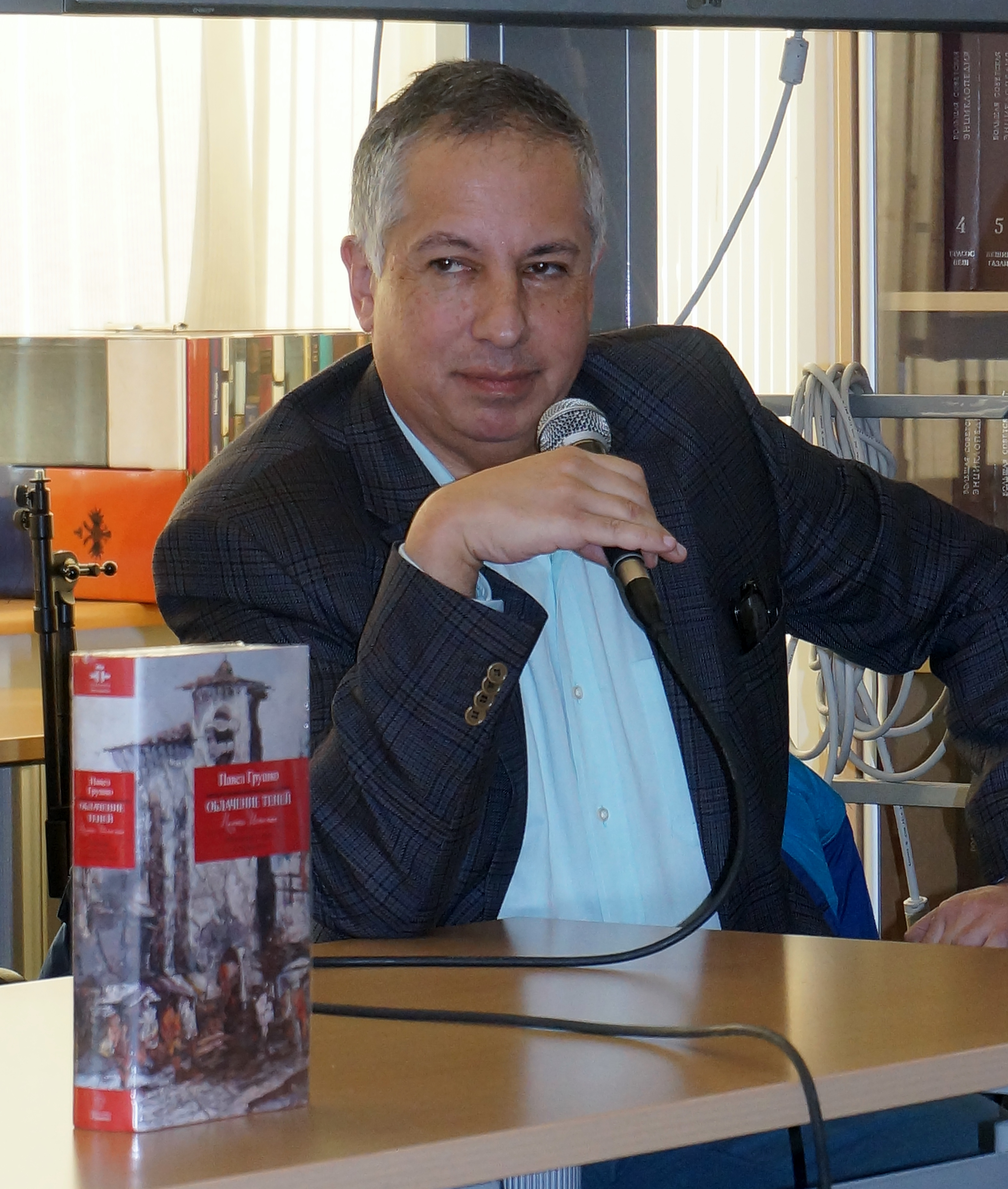 Chilean writer Diego Muñoz Valenzuela at the 17 Moscow International Fair of Intelectual Books, Non-Fiction 2015